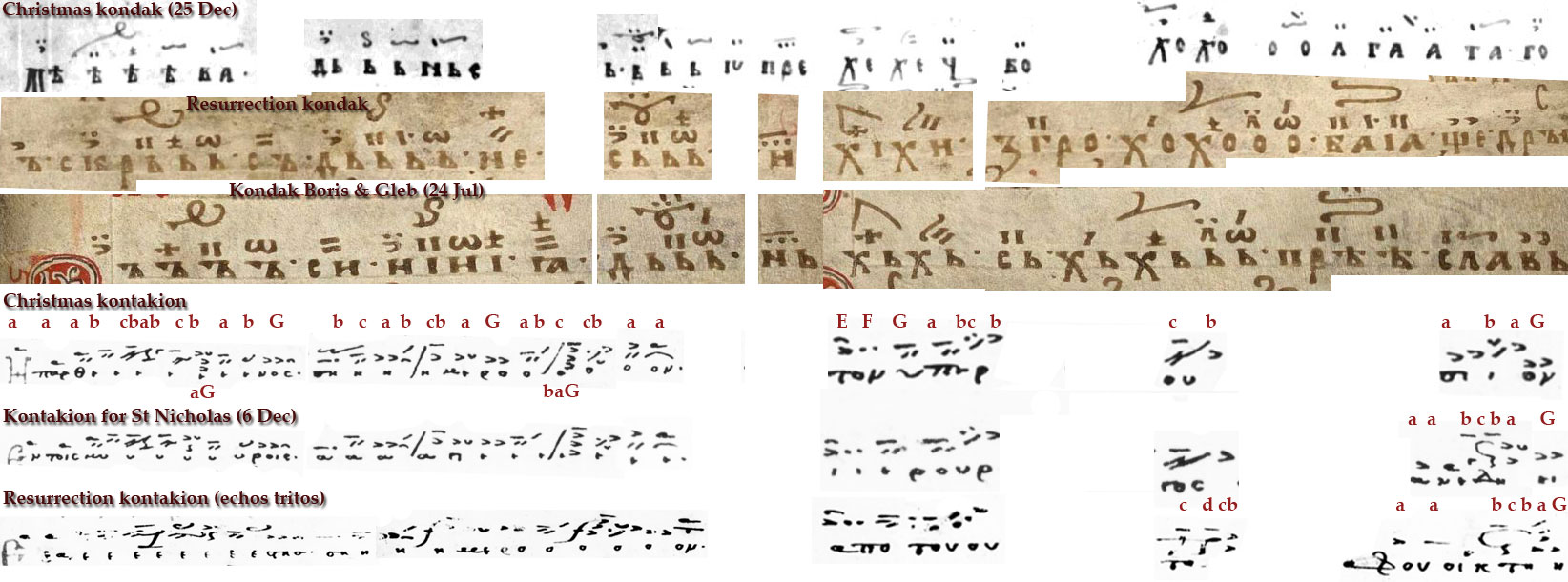 Romanos the Melodist's kontakion Ἡ παρθένος σήμερον (Дѣва дньсь пребогата ражаѥть) in echos tritos as model for other kontakia: Resurrection kontakion Ἐξανέστης σήμερον (Въскрьслъ ѥси дньсь) Kondak Въси дьньсь прҍславьнаꙗ съзывающи for Boris & Gleb (24 July) composed in the territory of the Kievan Rus’ Kontakion Ἐν τοῖς μύροις ἅγιε (Въ мьрѣхъ свѧтыи) for St Nicholas (6 December)